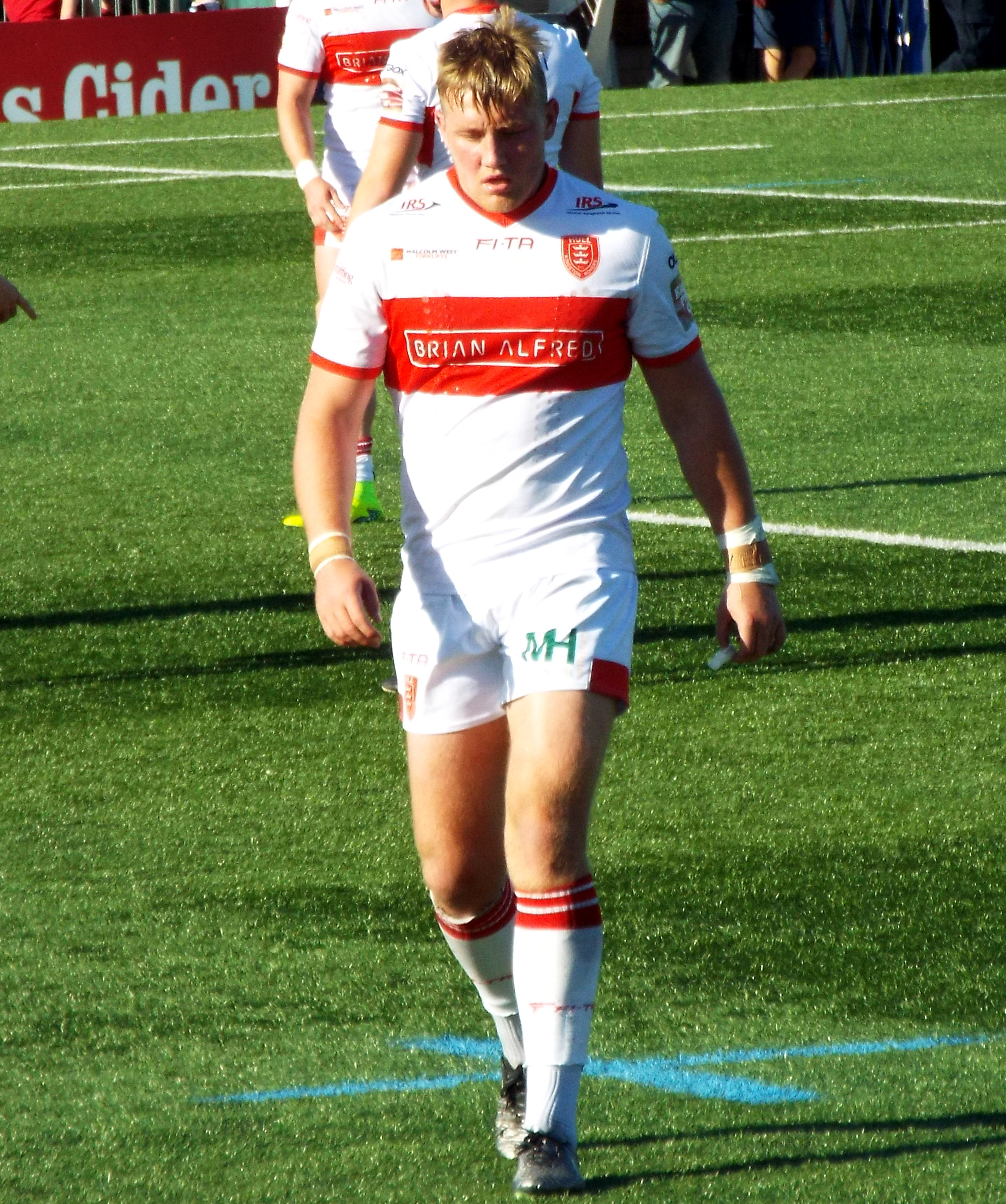 Jimmy Greenwood